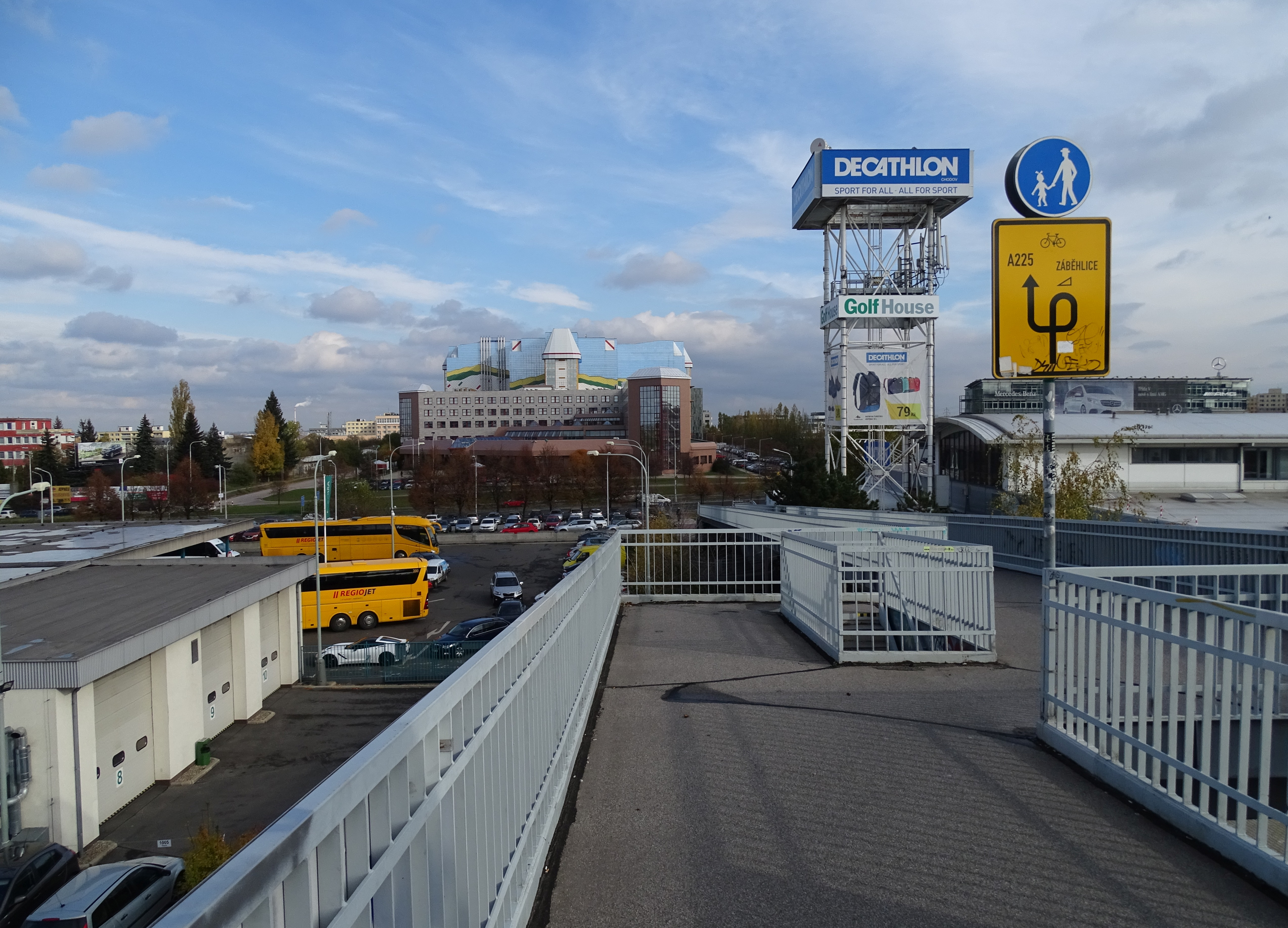 Prague-Chodov, Czechia, A footbridge over 5. května street, a view of Chodovec.